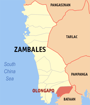 Map of Zambales showing the location of Olongapo City